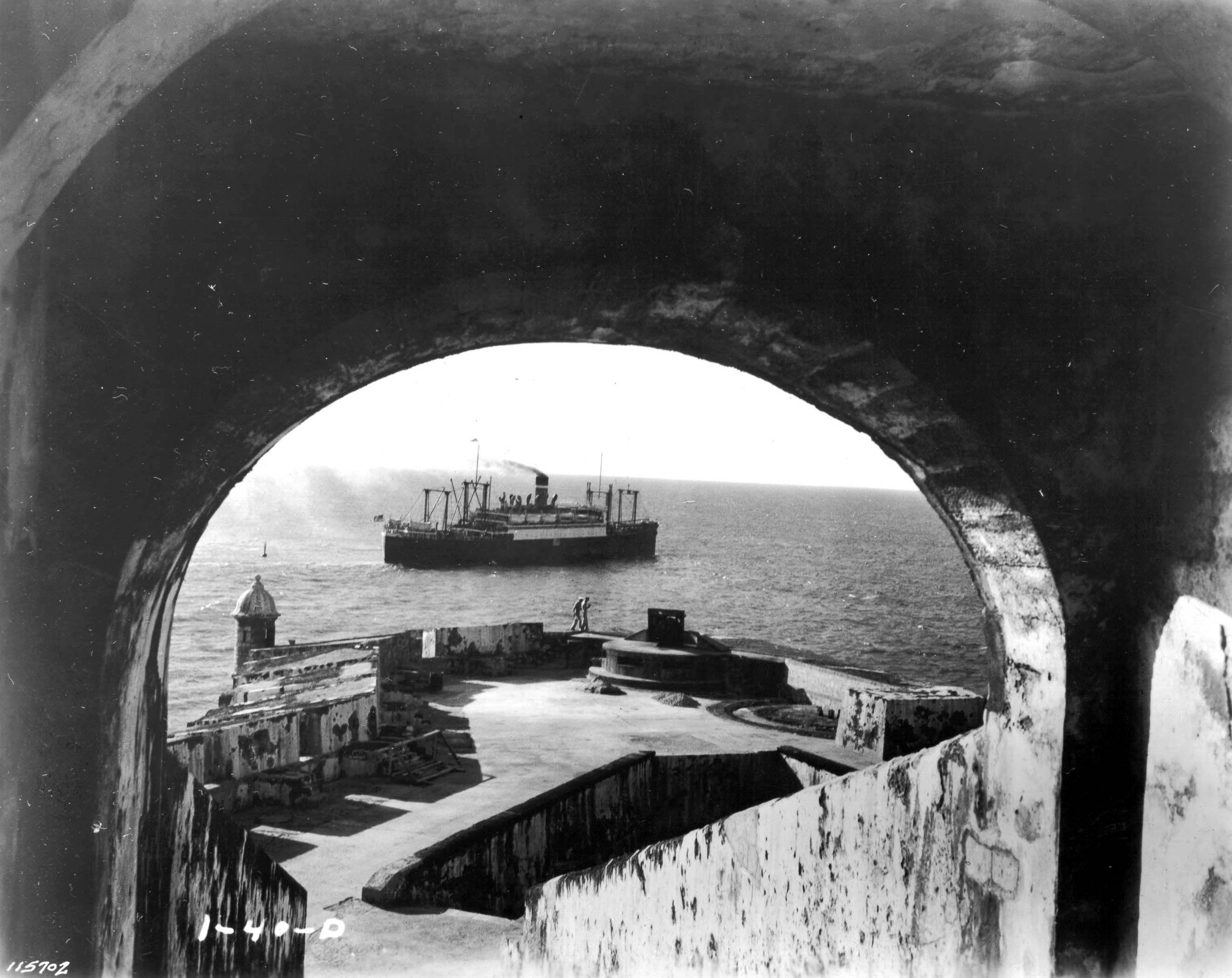 U.S.A. transport, "American Legion" departing San Juan Bay (part of El Morro Castle in foreground). 1940.